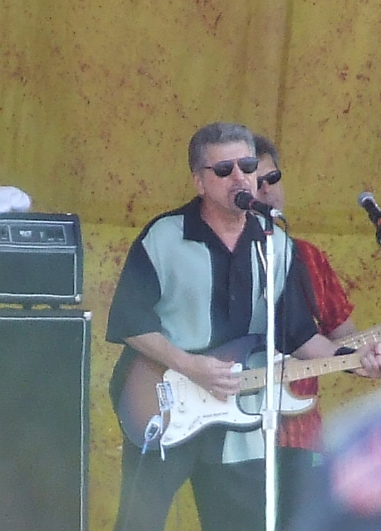 Johnny Rivers, Jazz Fest, New Orleans